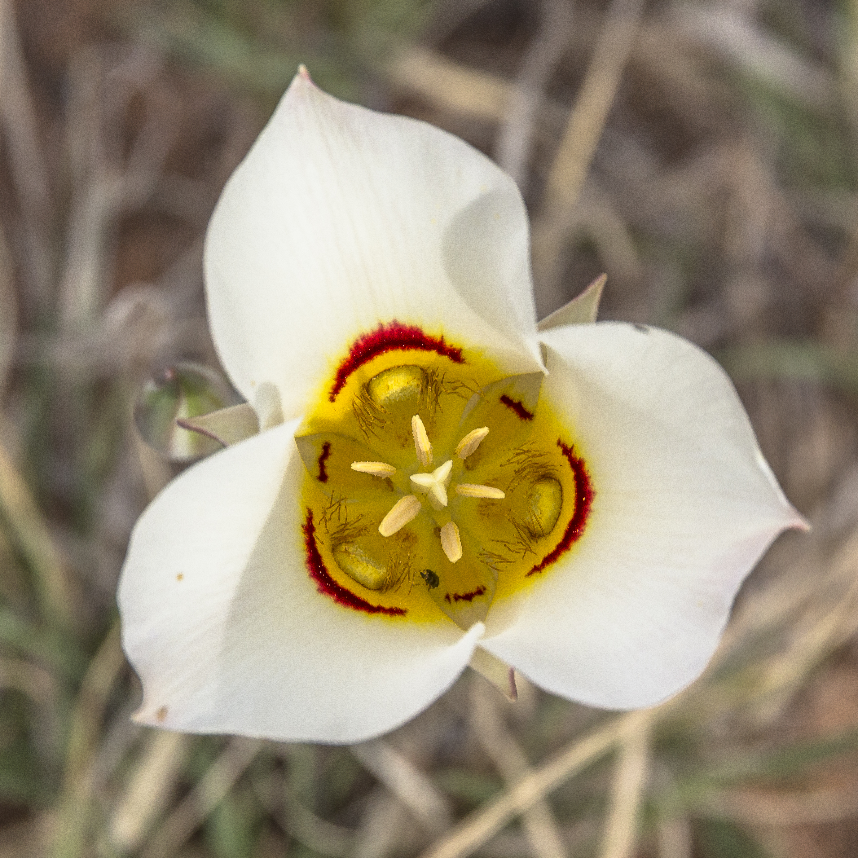 NPS photo by Kait Thomas